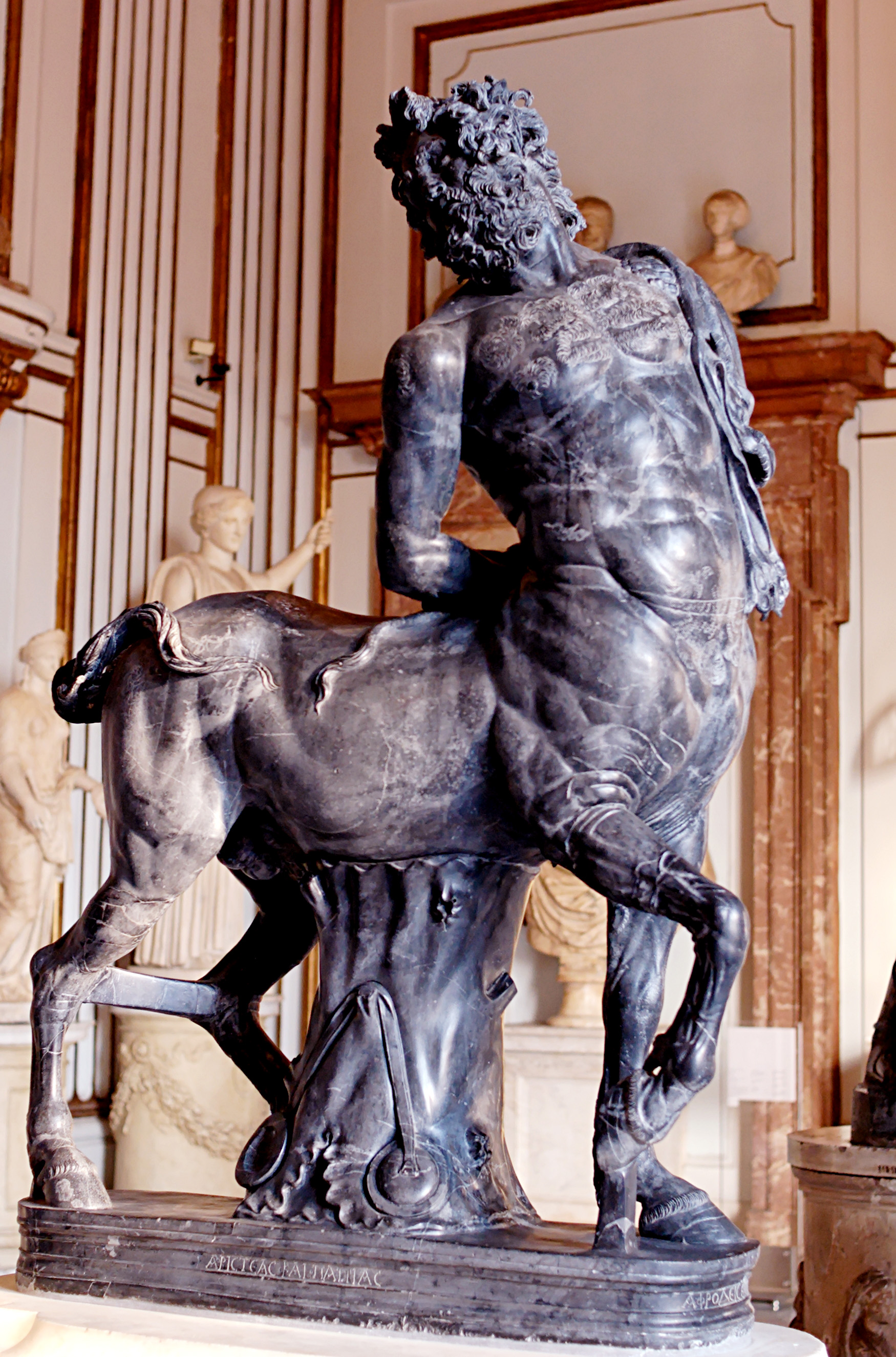 So-called “Old Centaur”: centaur teased by Eros (missing). Grey-black marble, Roman copy after an Hellenistic original.